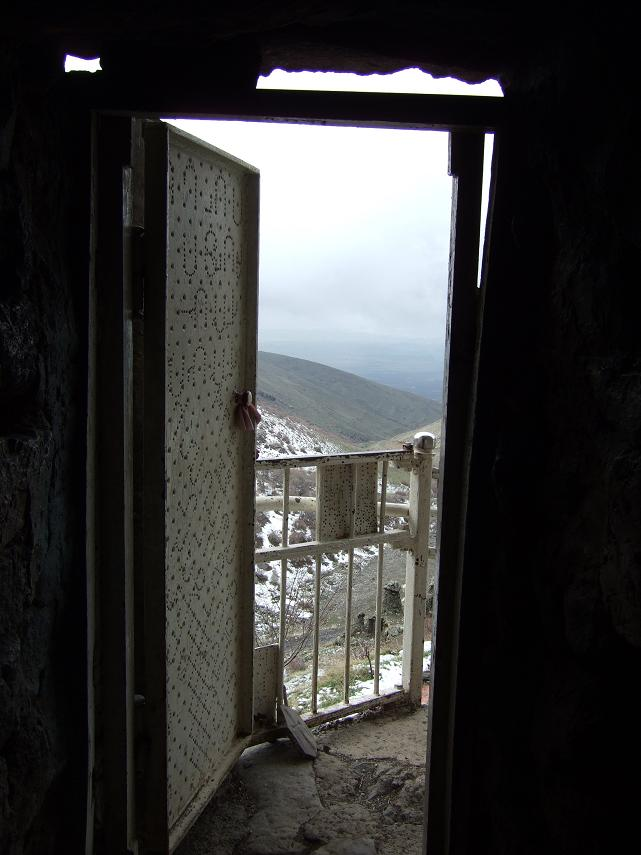 View from Tsaghkevank, Mount Ara, Armenia